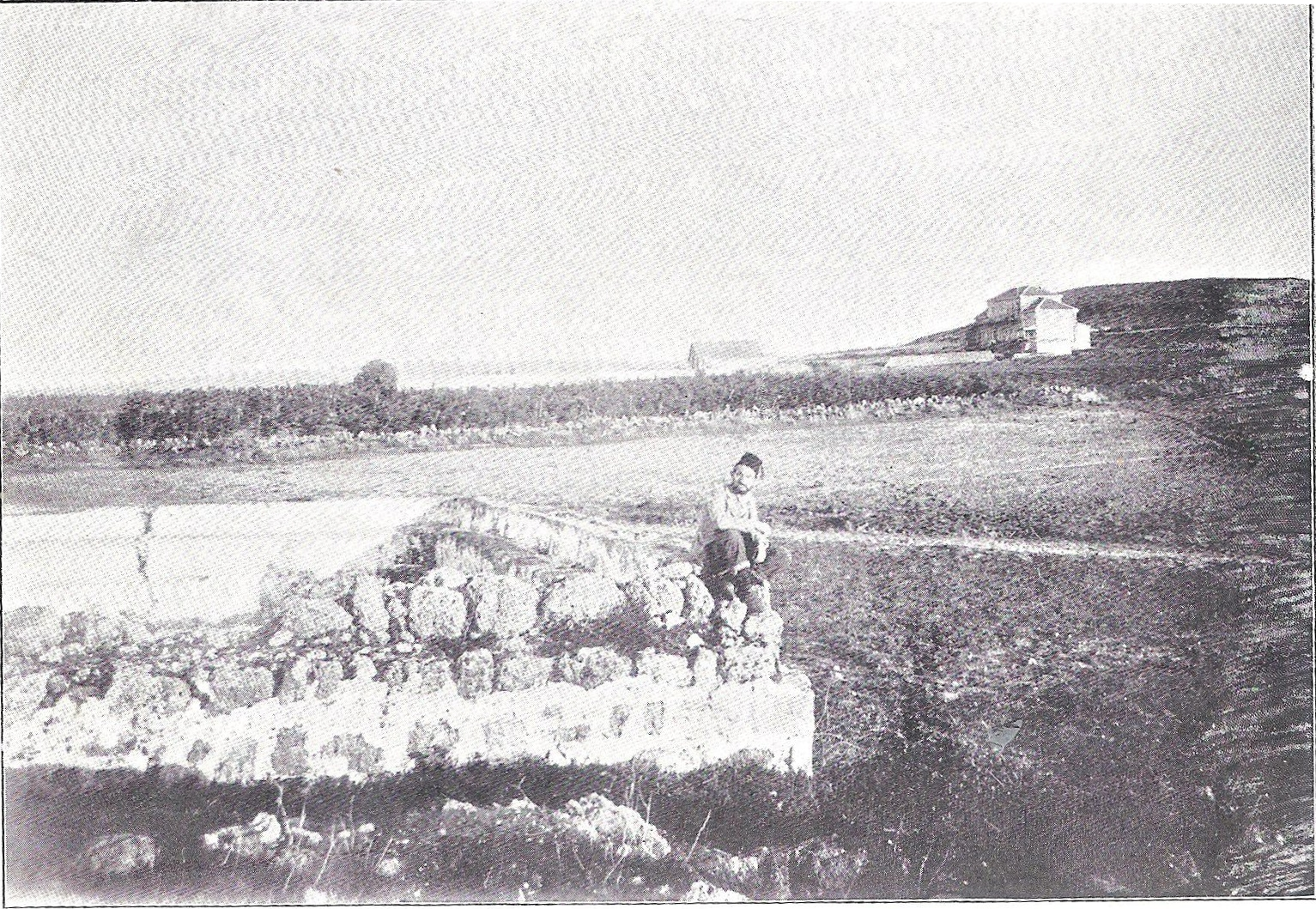 The picture are from old book (that was published in 1899), some of the picture are fro 1899, some are even older: This work or image is now in the public domain because its term of copyright has expired in Israel. According to Israel's copyright statute from 2007 (translation), a work is released to the public domain on 1 January of the 71st year after the author's death (paragraph 38 of the 2007 statute) with the following exceptions: A photograph taken on 24 May 2008 or earlier — the old British Mandate act applies, i.e. on 1 January of the 51st year after the creation of the photograph (paragraph 78(i) of the 2007 statute, and paragraph 21 of the old British Mandate act). If the copyrights are owned by the State, not acquired from a private person, and there is no special agreement between the State and the author — on 1 January of the 51st year after the creation of the work (paragraphs 36 and 42 in the 2007 statute). See also category: PD Israel & British Mandate. For the scan and the the crop: The name of the book (in hebrew) is: "מראה ארץ ישראל והמושבות" by (in hebrew): "ישעיהו ראפאלוביטש ושותפו משה אליהו זאכס" Ness Ziona